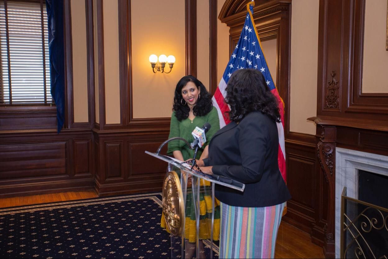 Salome Mulugeta (Left) attends her Mayor Muriel Bowser proclamation reading by Kimberly Bassett, Secretary of State, District of Columbia, Executive Office of Mayor Muriel Bowser.